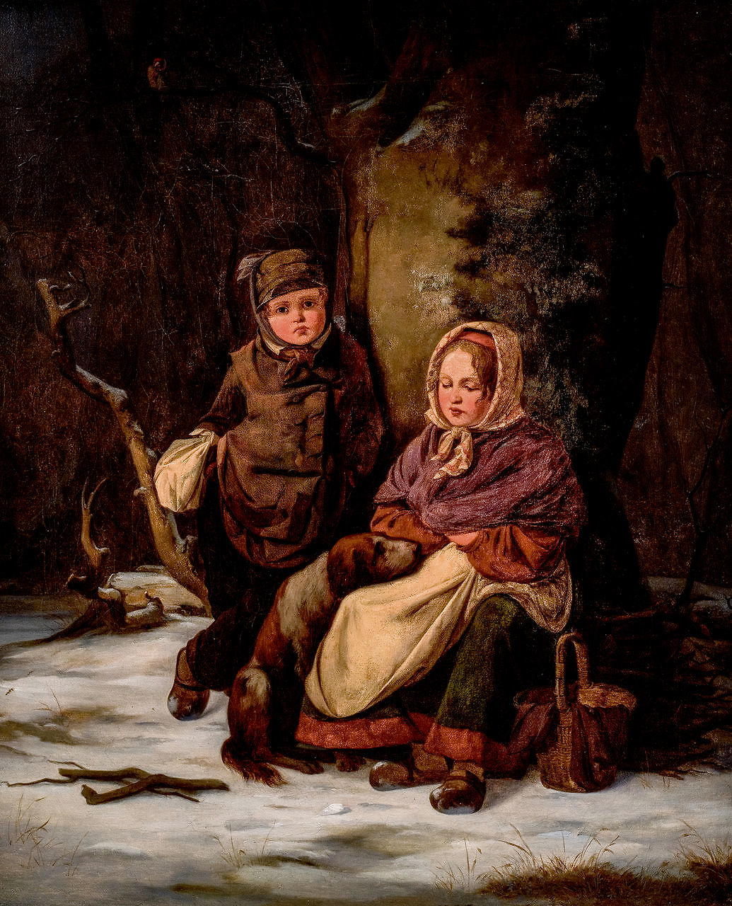 Peter Julius Larsen - To fattige børn (1845)